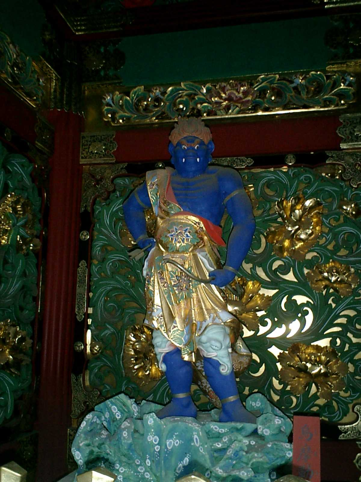 Nikko, Tochigi, Tokyo, Japan